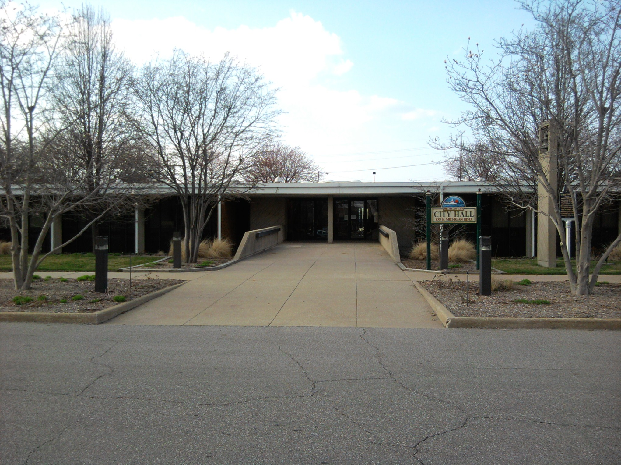 City Hall, Michigan City, Indiana